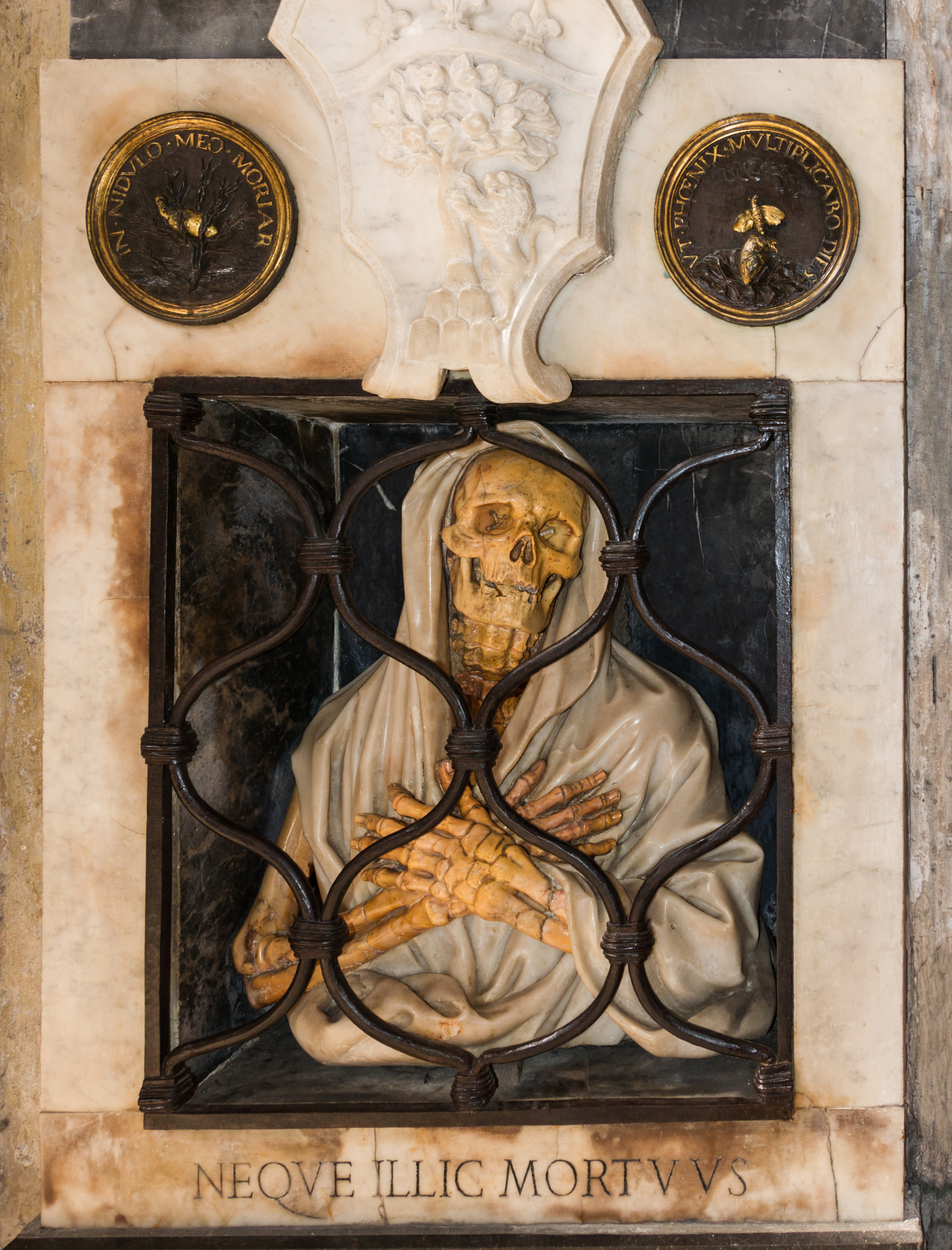 "Neque illic Mortuus", lower part of monument to Giovani Baptista Gisleni (1670) in the Basilica of Santa Maria del Popolo, Rome, Italy.